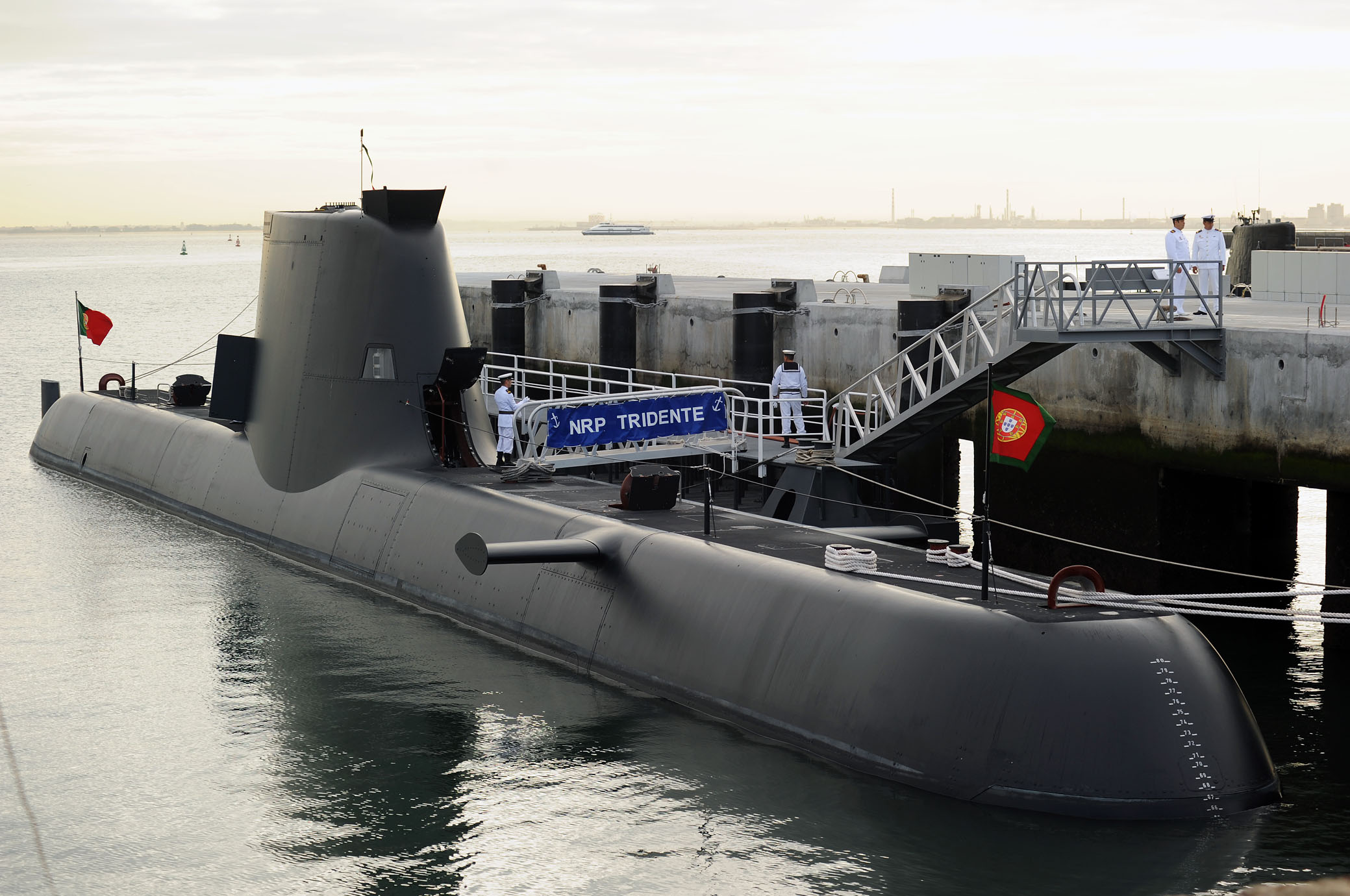 Submarine NRP Trident on it´s arrival to Alfeite naval base.